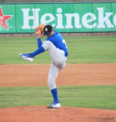 Pablo Fernandez pitching for the Rancho Cucamonga Quakes